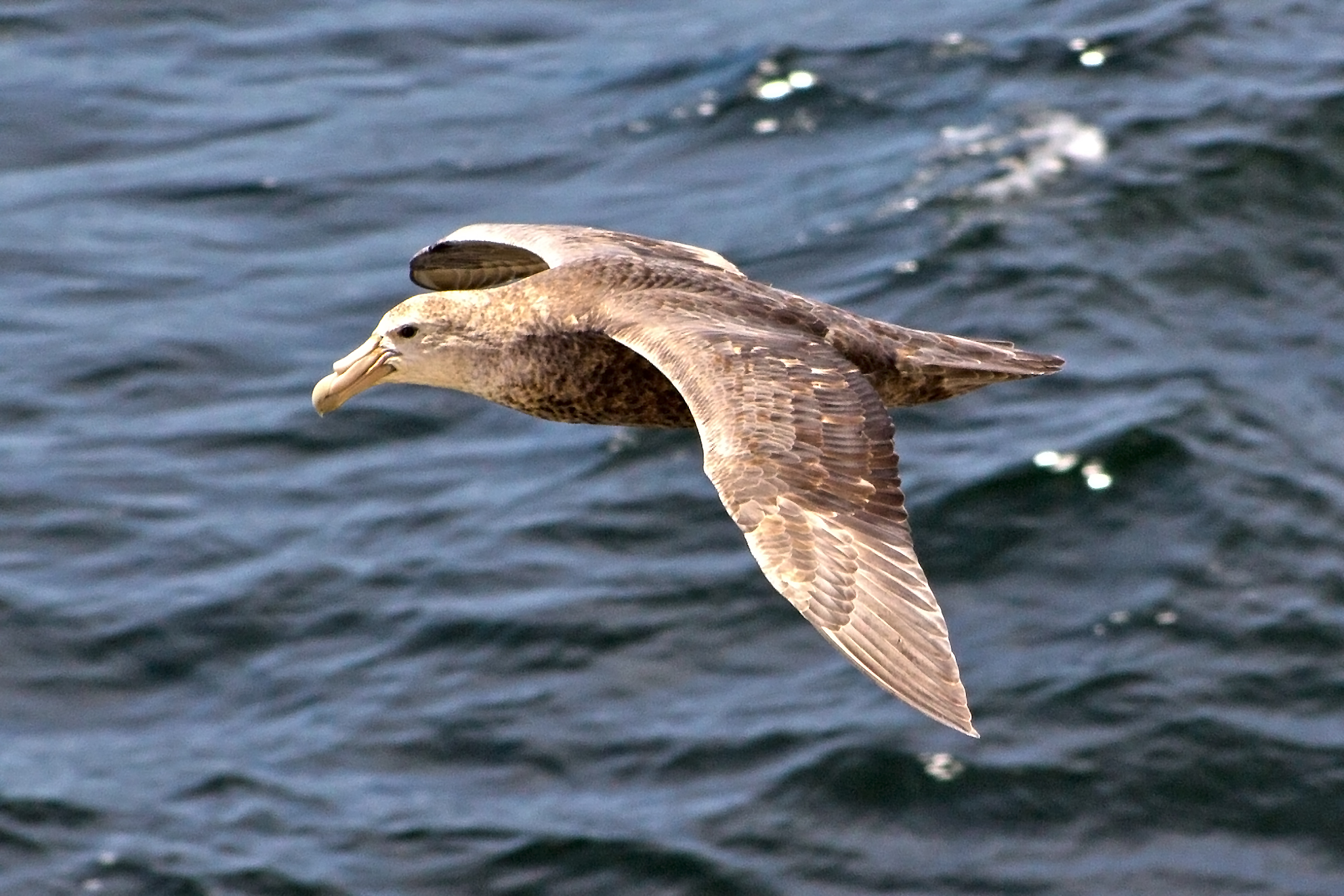 Southern Giant Petrel, Macronectes giganteus, immature; South Atlantic. 200 km east of Falkland Islands